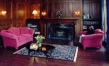 Alpha Chi Omega House